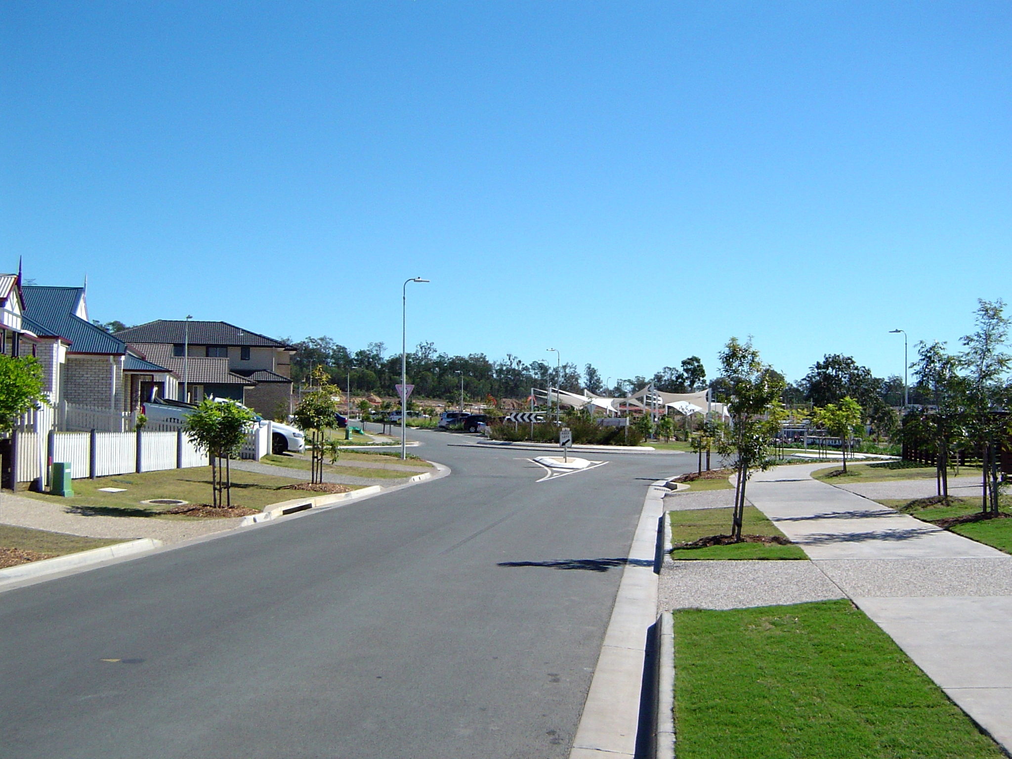 Photo of Huggins Avenue at Yarrabilba in Logan City, Queensland, Australia. The sunshades of Darlington Park can be seen in the background.